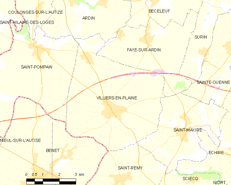 Map of French municipality Villiers-en-Plaine